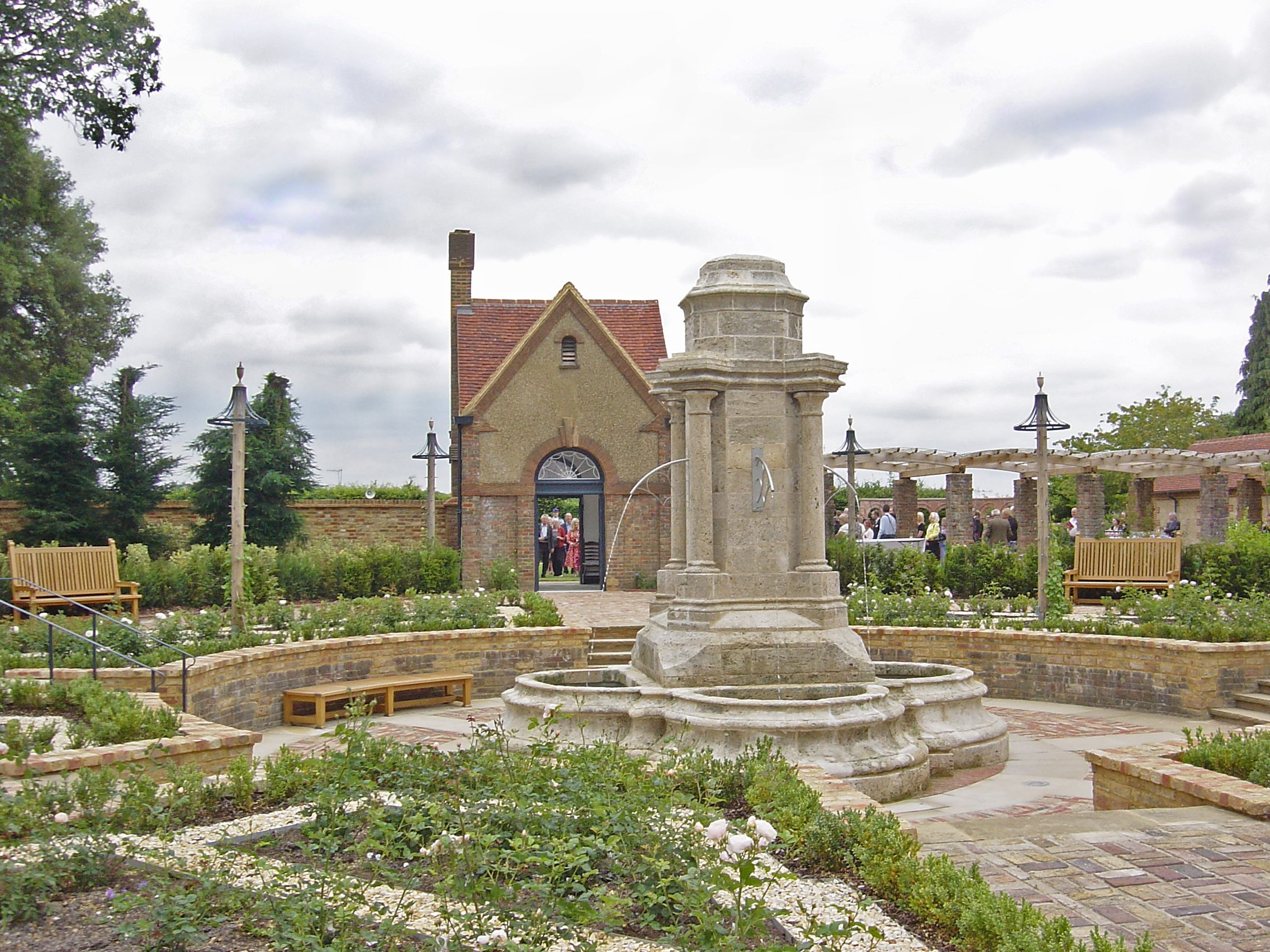 Photo shows restored fountain, roses and other features of the garden.